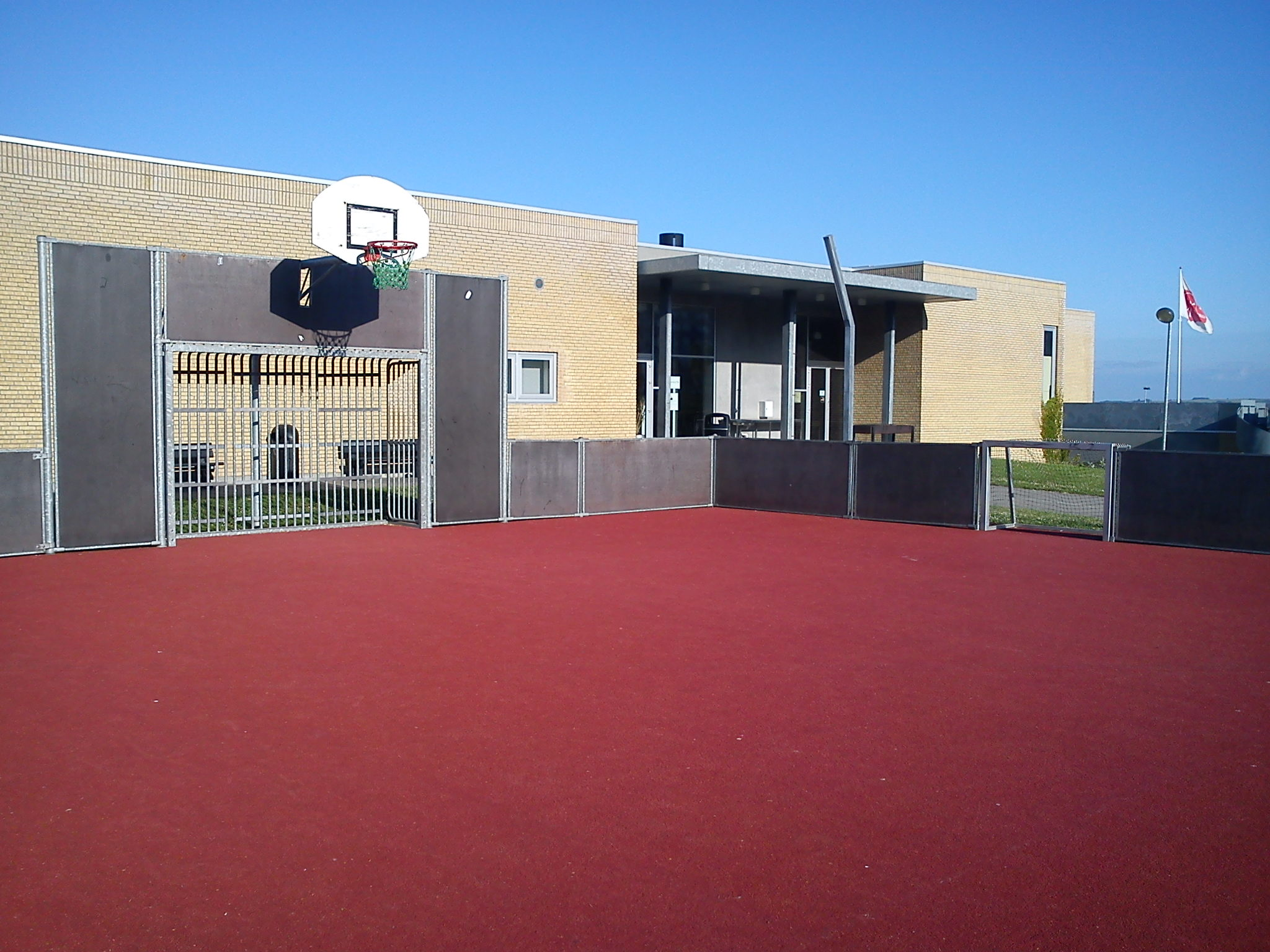 The main entrance to Globus1, as seen from the basket/soccer/hockey playground.